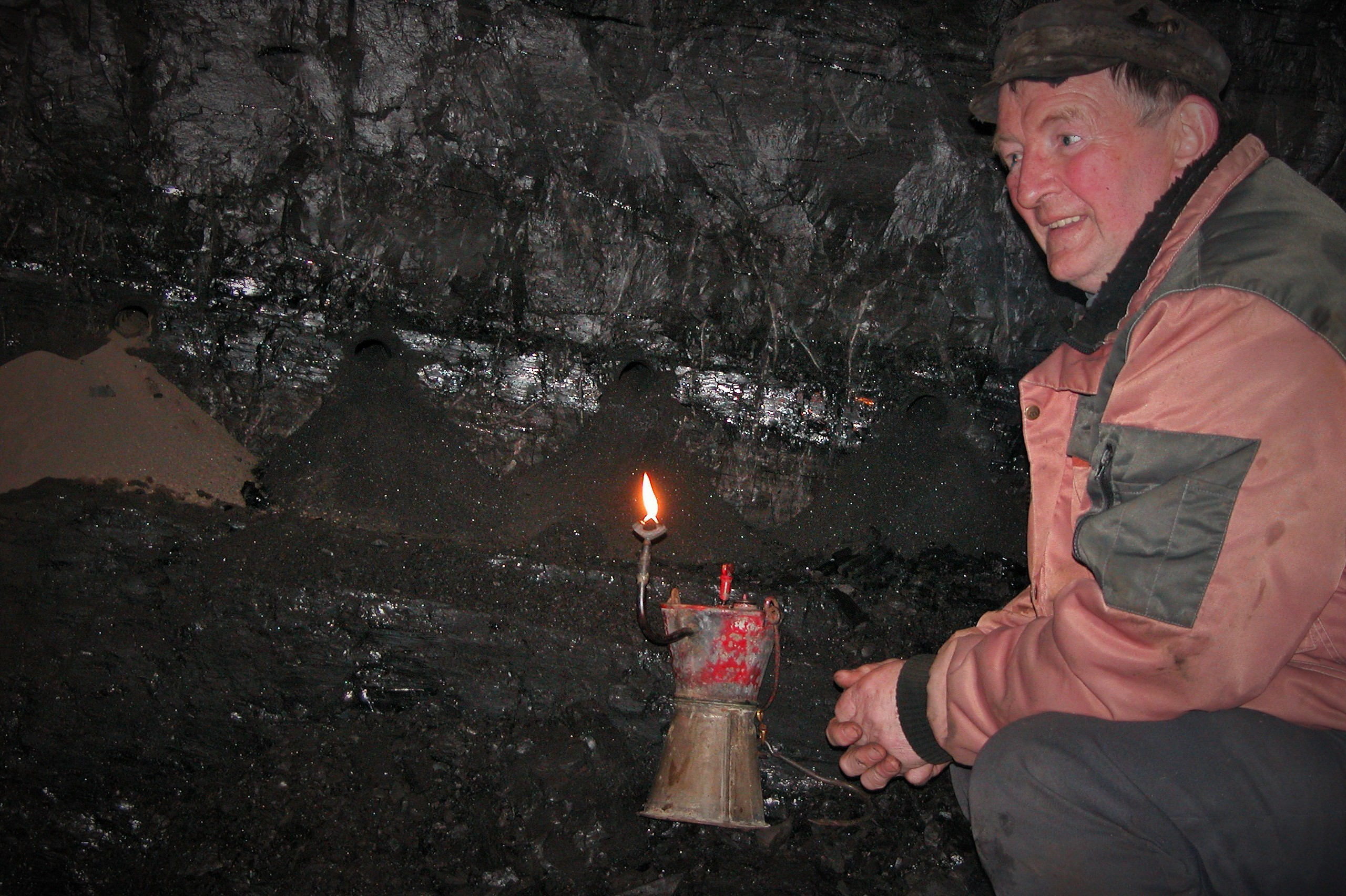 Faroese coalmine in Hvalba, Suðuroy, Hvalba